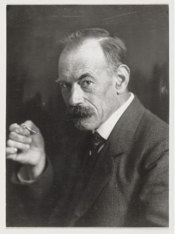 Jan van der Linde